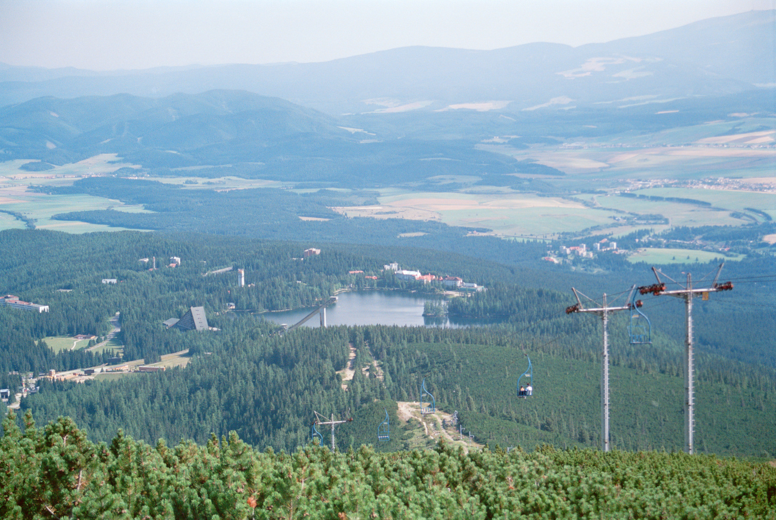 own picture, taken in summer 2000 Štrbské Pleso in the Tatra mountains (slovakian side), lake and village, view from Chata pod Soliskom eigene Aufnahme, Sommer 2000 Blick auf Štrbské Pleso in der Hohen Tatra (slowakische Seite) von der Chata pod Soliskom